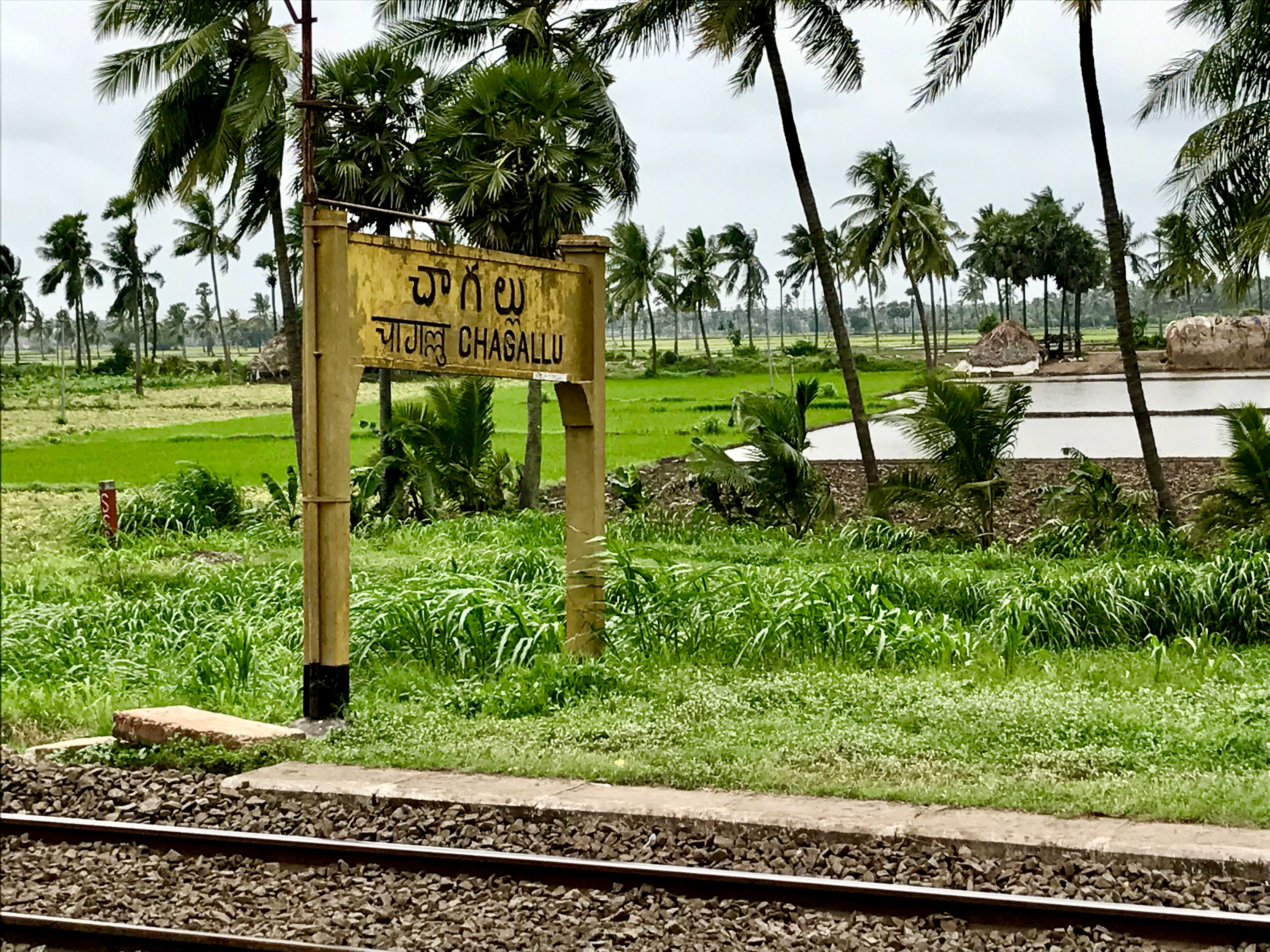 Chagallu railway station Board